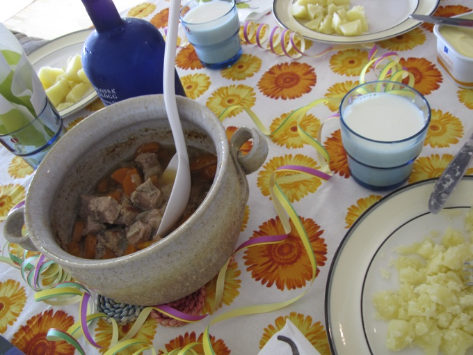 Karelian steak from Finland.